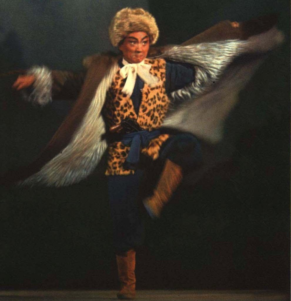 1967-01 1967年智取威虎山